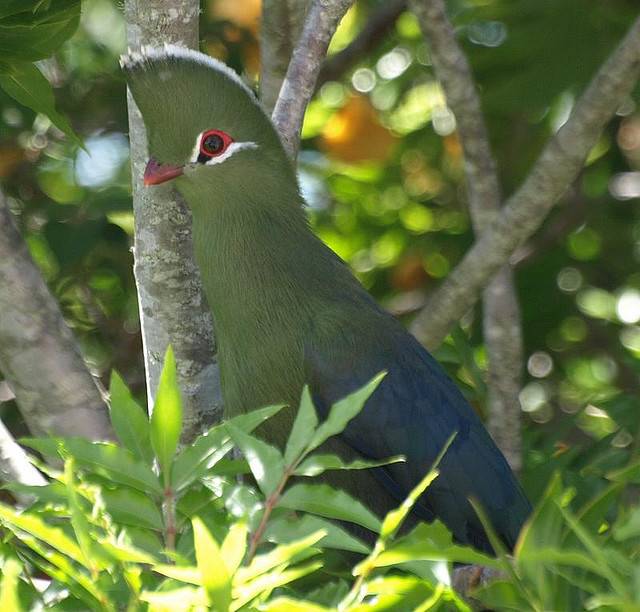 Knysna Turaco / Knysna Lourie at Knysna, Western Cape, South Africa